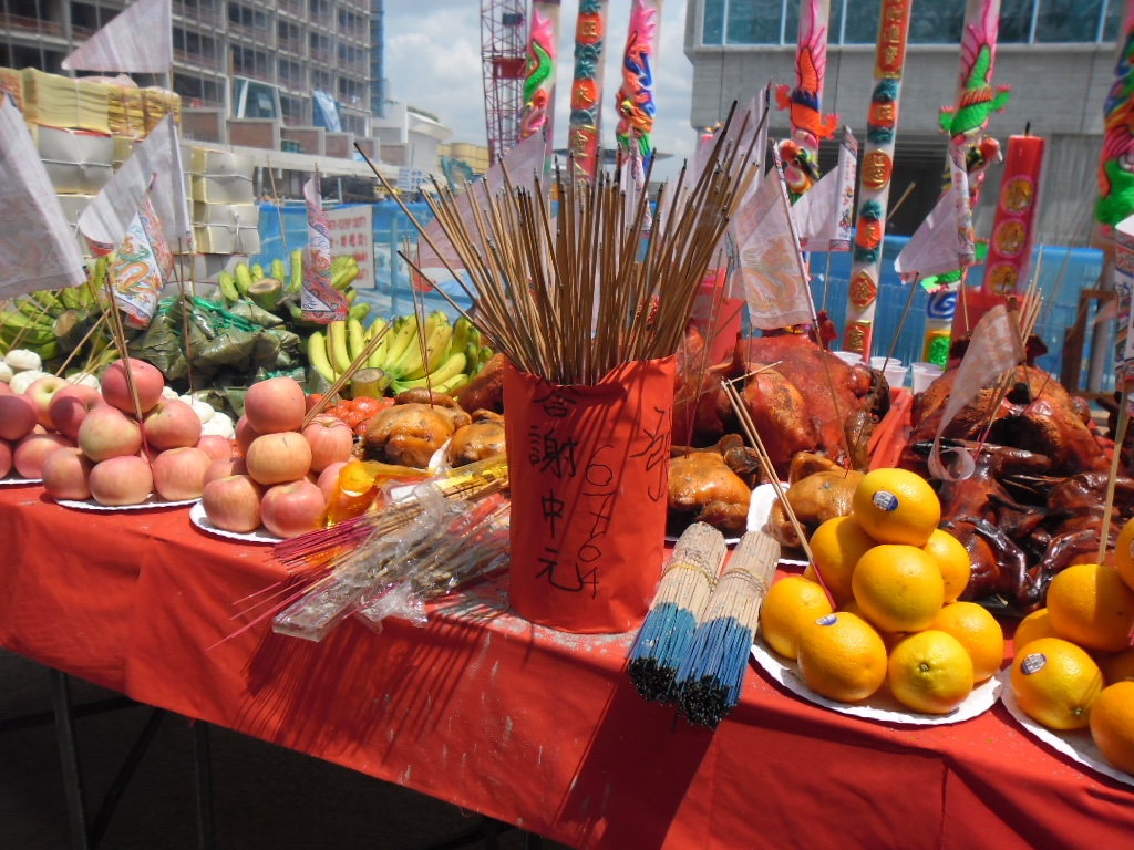 UE CBH 7th Month Hungry Ghost Pray